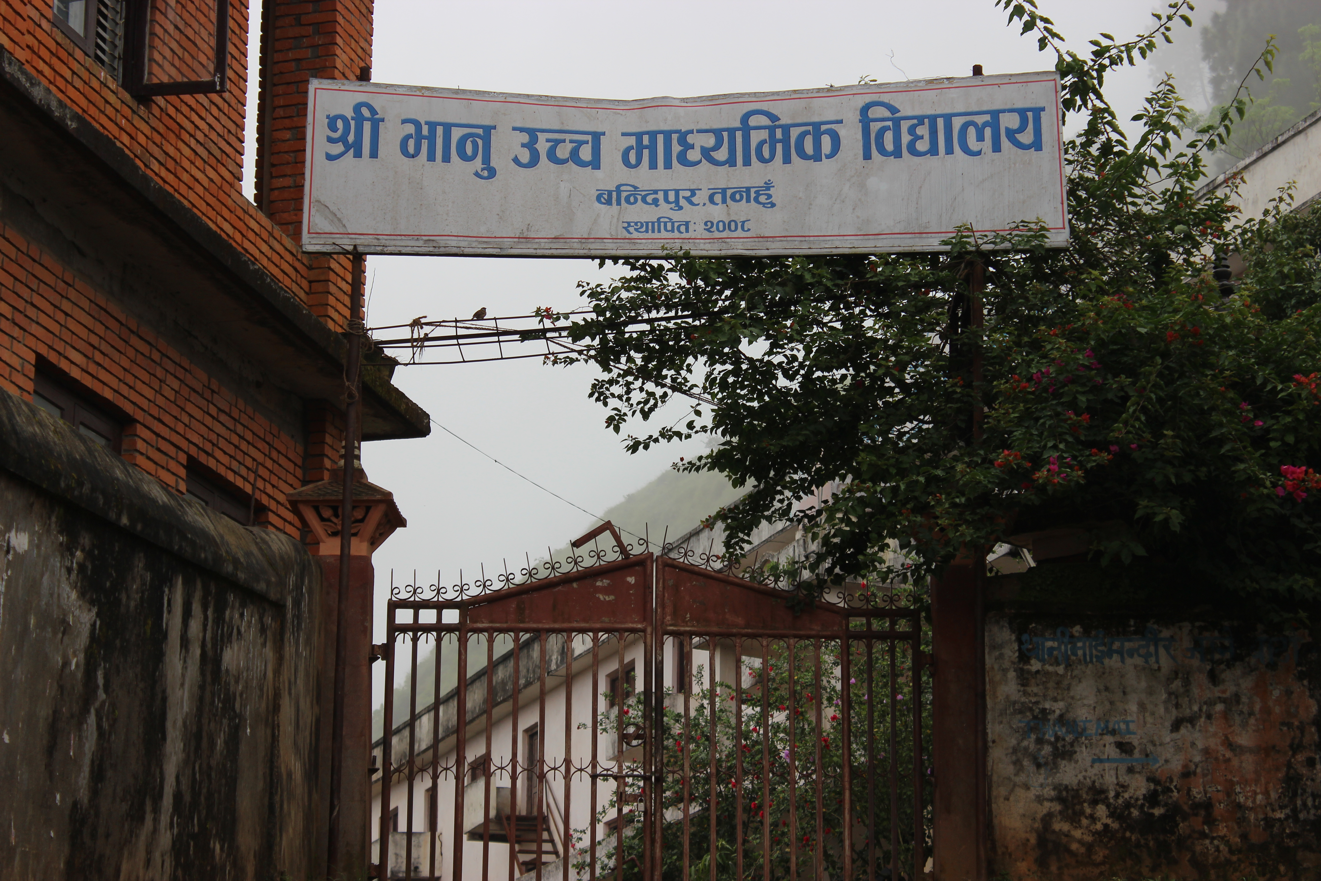 A higher secondary level school in Bandipur.